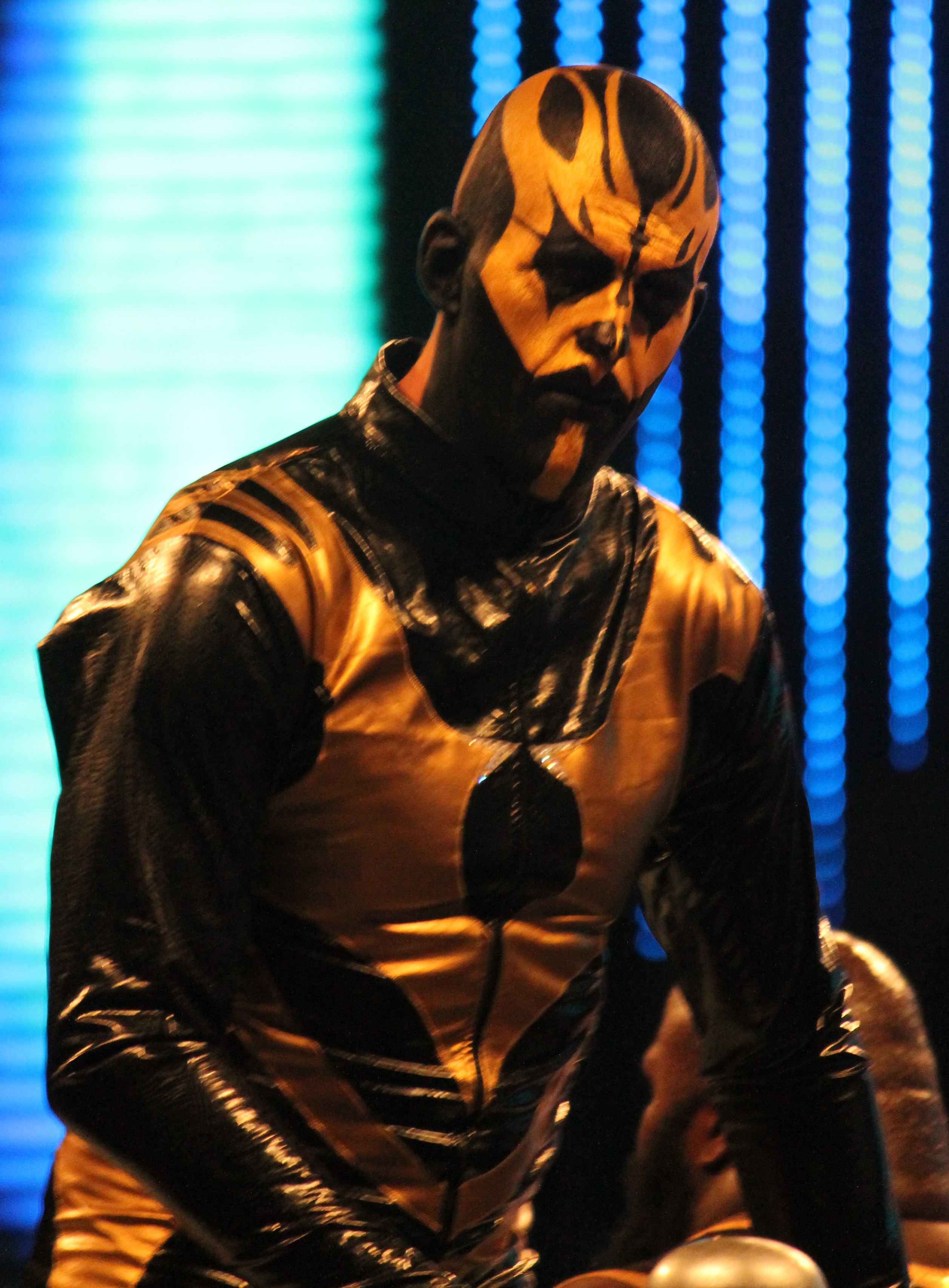 Goldust at the post-WrestleMania SmackDown tapings on 8 April 2014 in Lafayette.